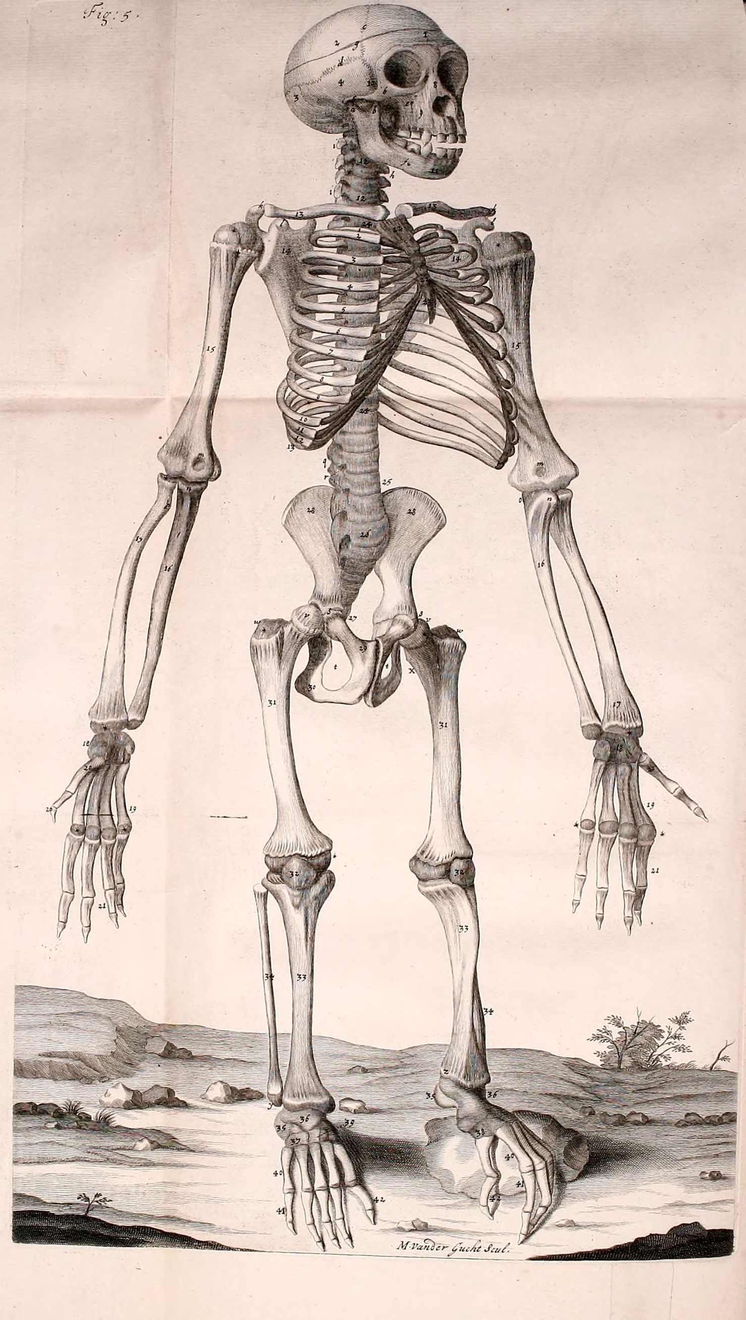 Image from Edward Tyson's Orang-outang, sive homo sylvestris: or, The anatomy of a pygmie compared with that of a monkey, an ape, and a man.. Although Tyson describes this as an orang-utang, the skeleton is actually that of a young chimpanzee. See Bainbridge, David (2018) The Art of Animal Anatomy, Herbert Press, p. 118 ISBN: 978-1-912217-35-9.